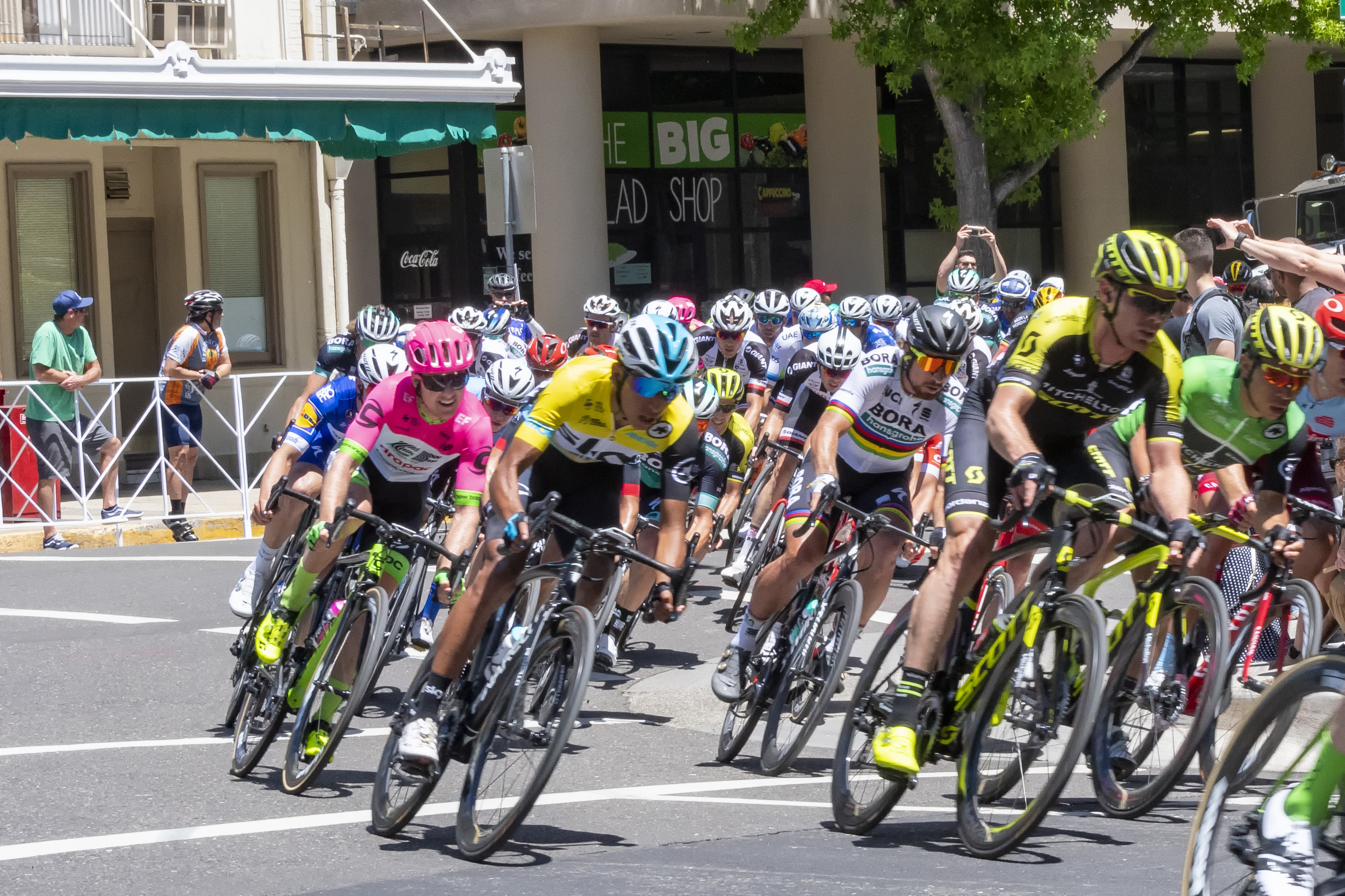 Amgen Tour of California 2018 Stage 7 Sacramento - Sacramento Road Race UCI World Tour